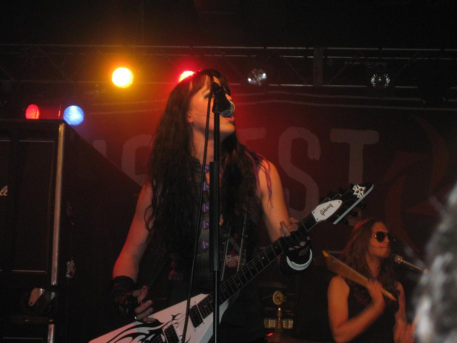 Halestorm performing live 2009